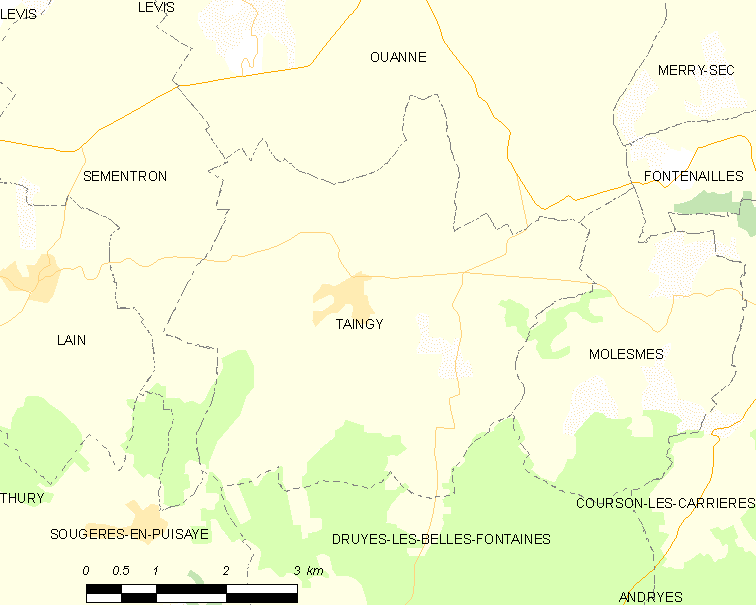 Map of French municipality Taingy